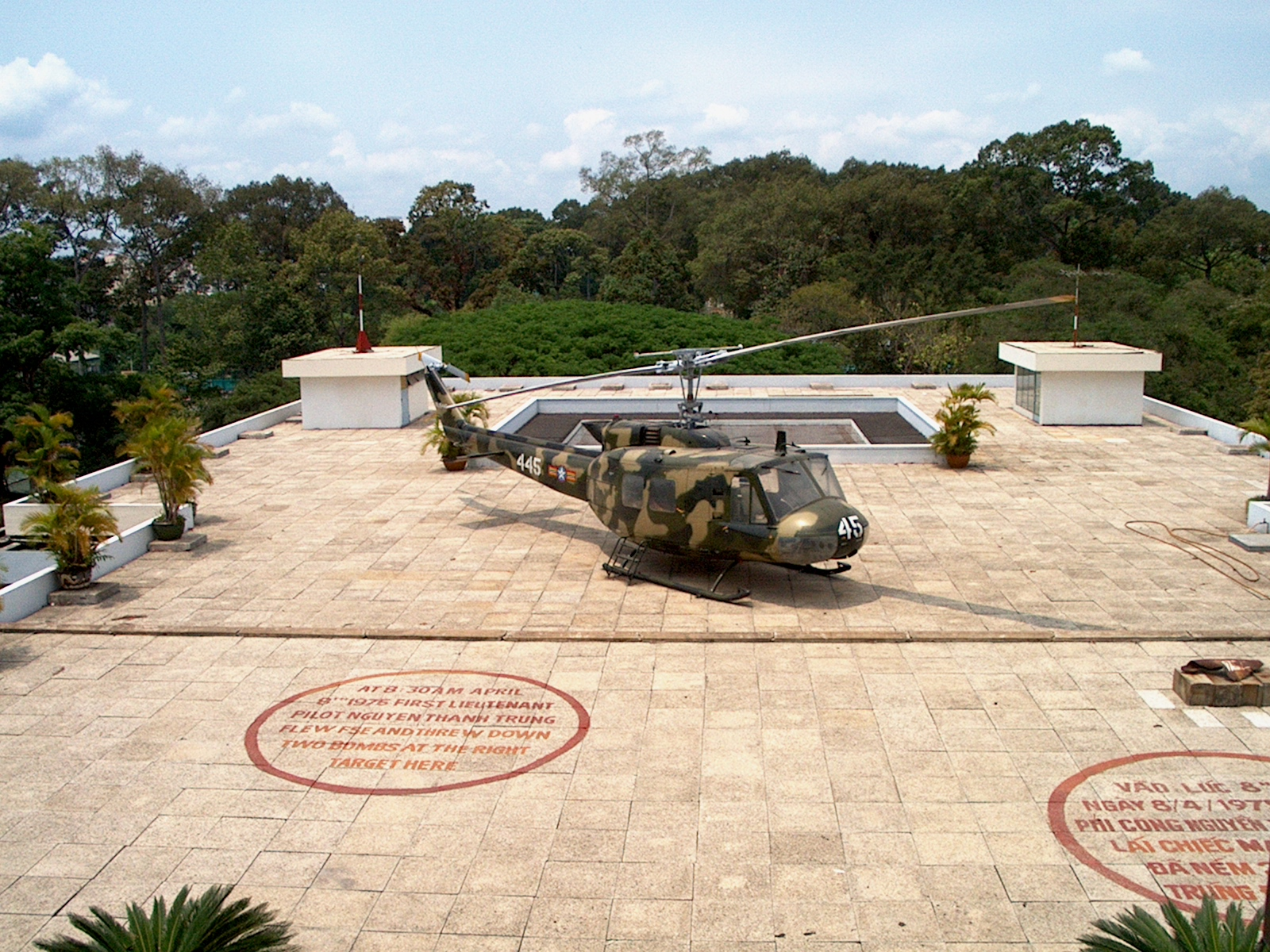 Reunification Palace, Hanoi, Vietnam. Roof view showing captured US helicopter.